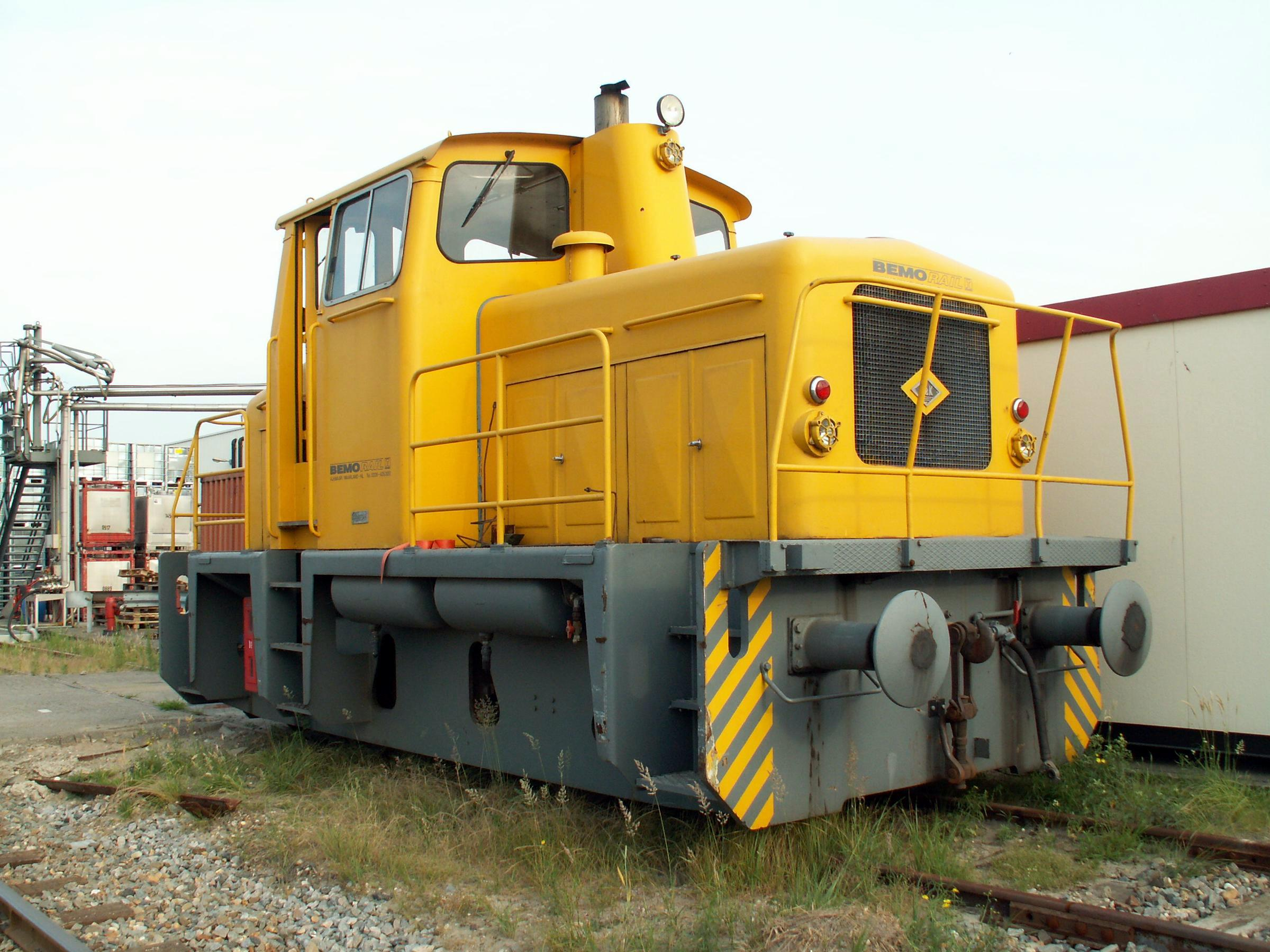 Photographed in the Netherlands.